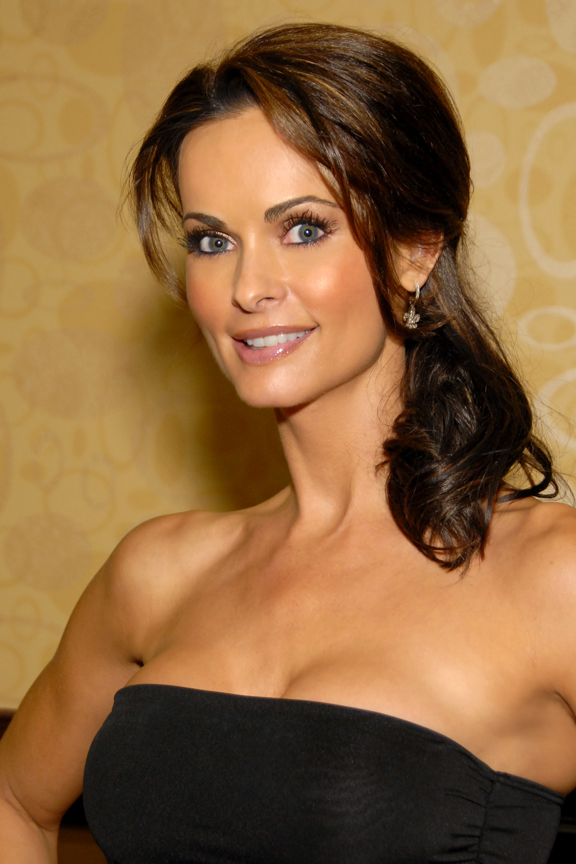 Karen McDougal, Los Angeles, CA on October 1, 2011 - Photo by Glenn Francis of